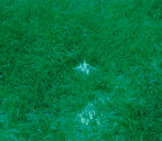 Eustrombus gigas in a seagrass bed, Rice Bay, San Salvador Island, Bahamas. June 24, 1999.